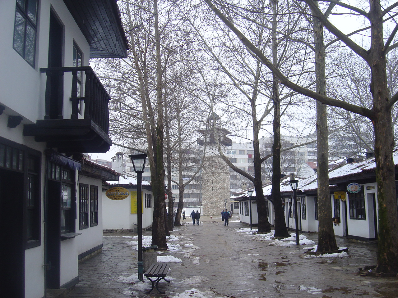 Ethnographic Compound in Dobrich